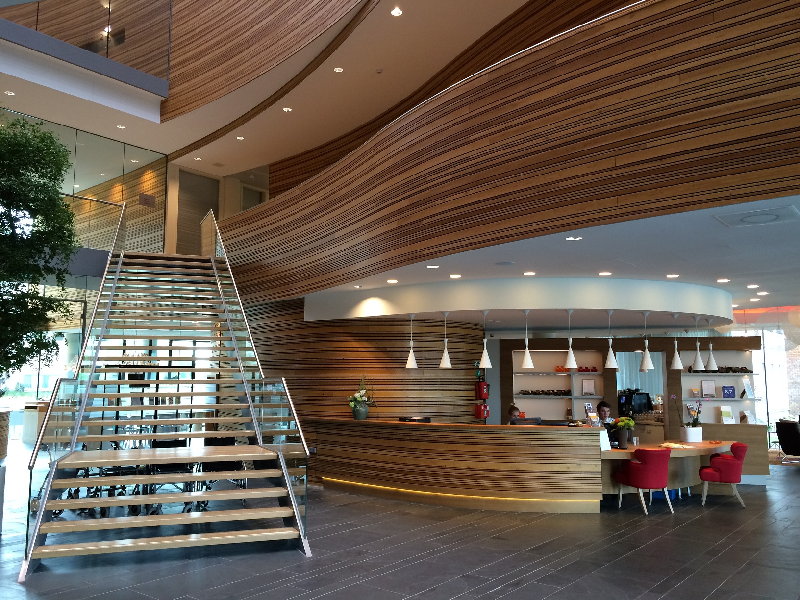 The lobby of Hotel Udens Duyn, Uden (province of North Brabant, Netherlands).